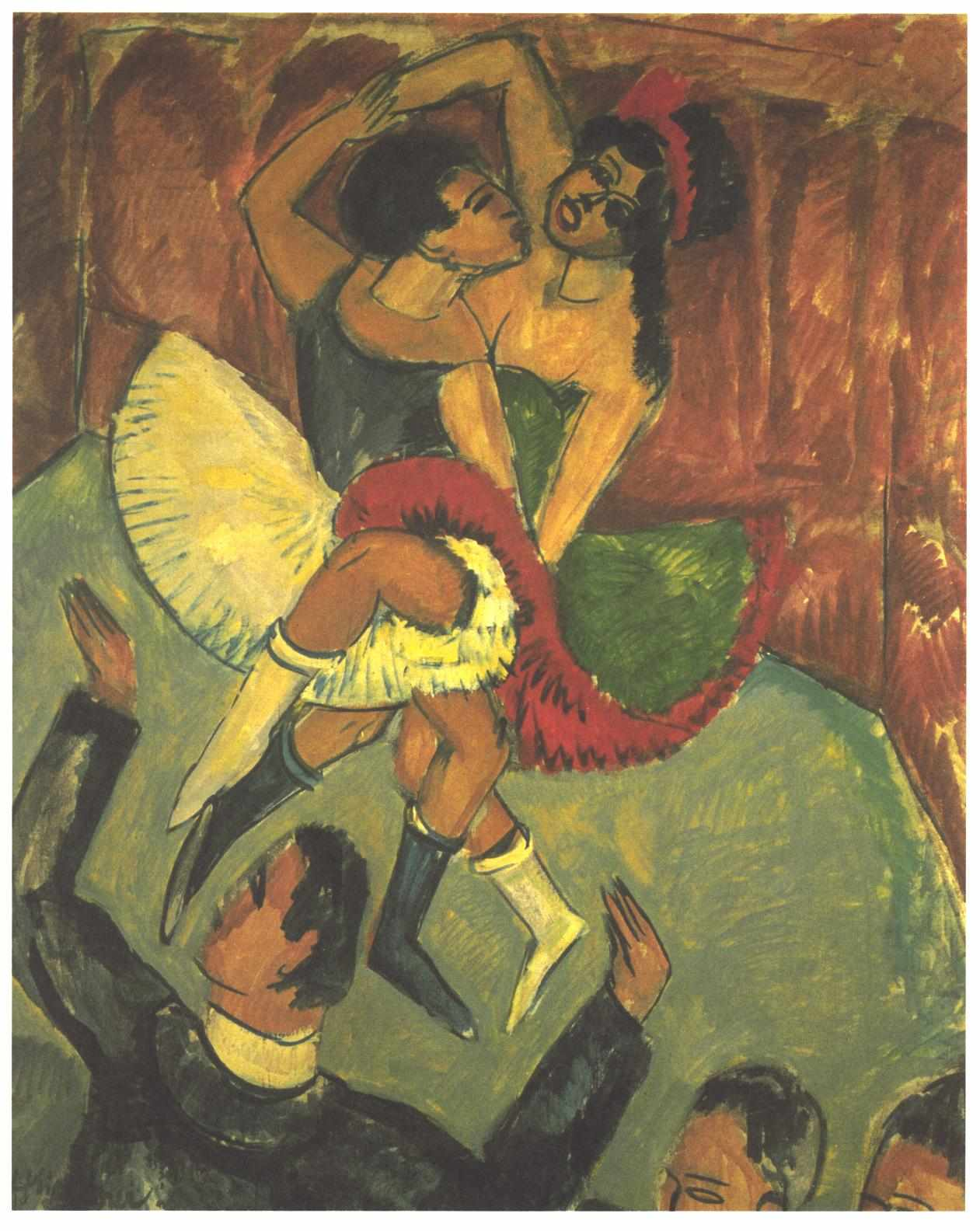 Dance of negros